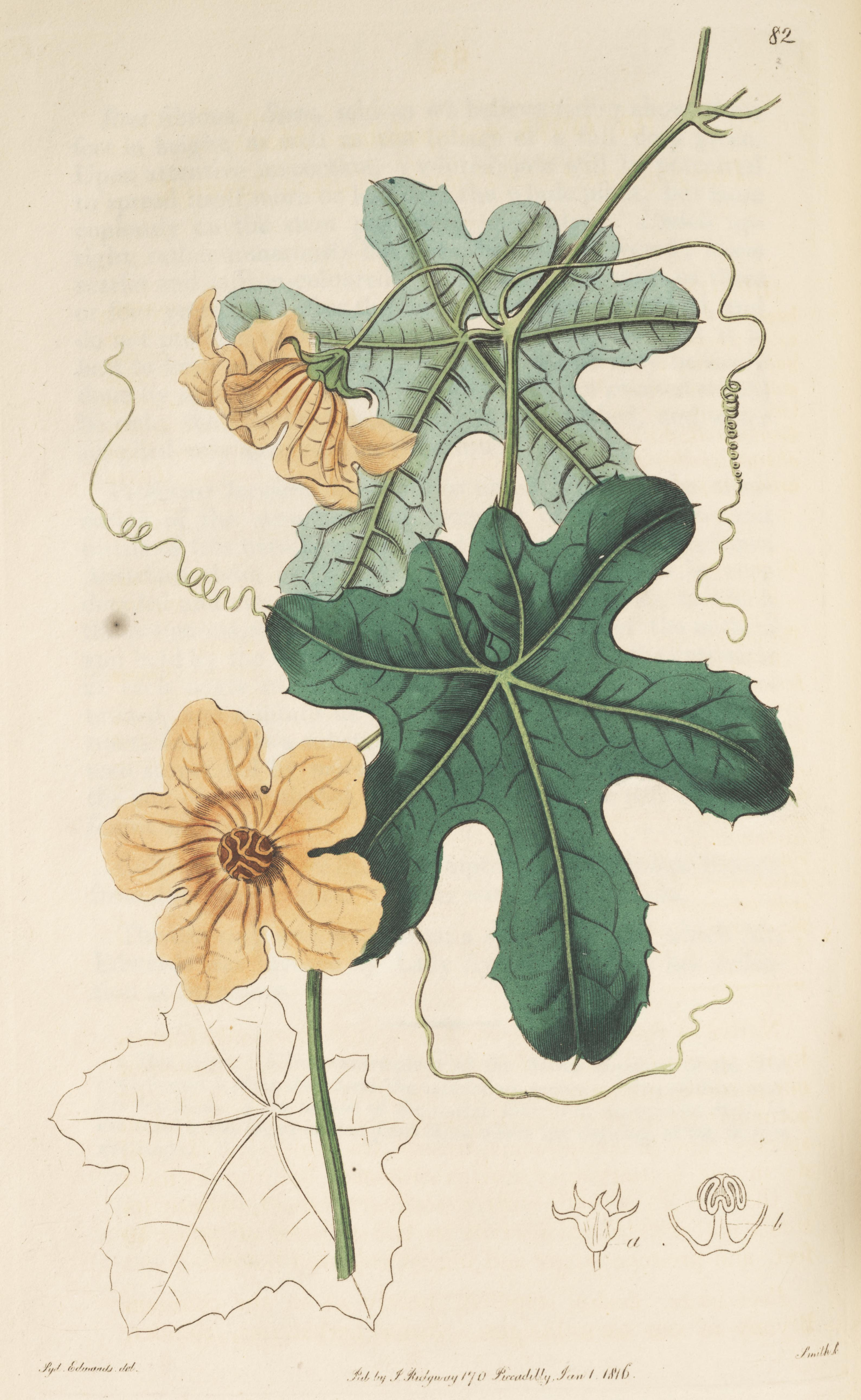 The Botanical register :consisting of coloured figures of ...